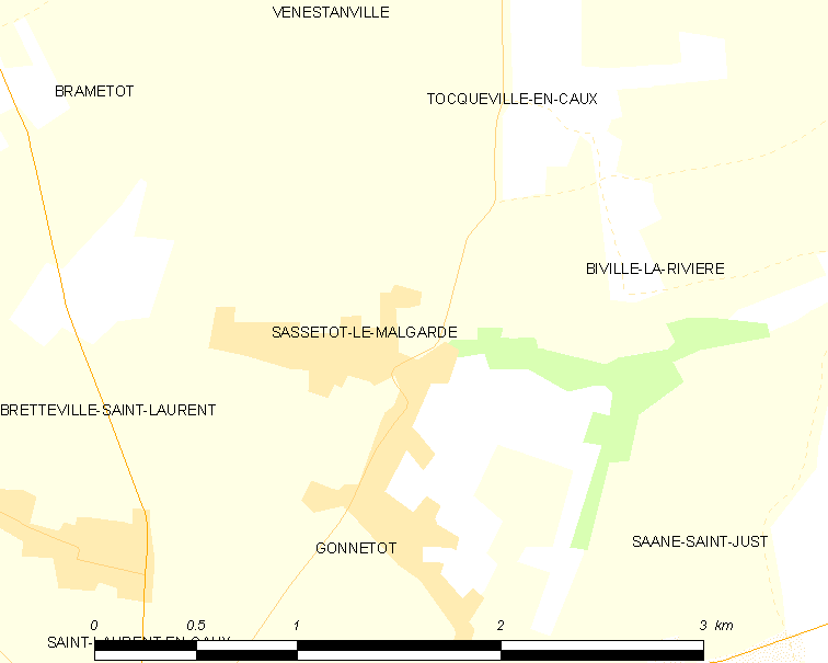 Map of French municipality Sassetot-le-Malgardé